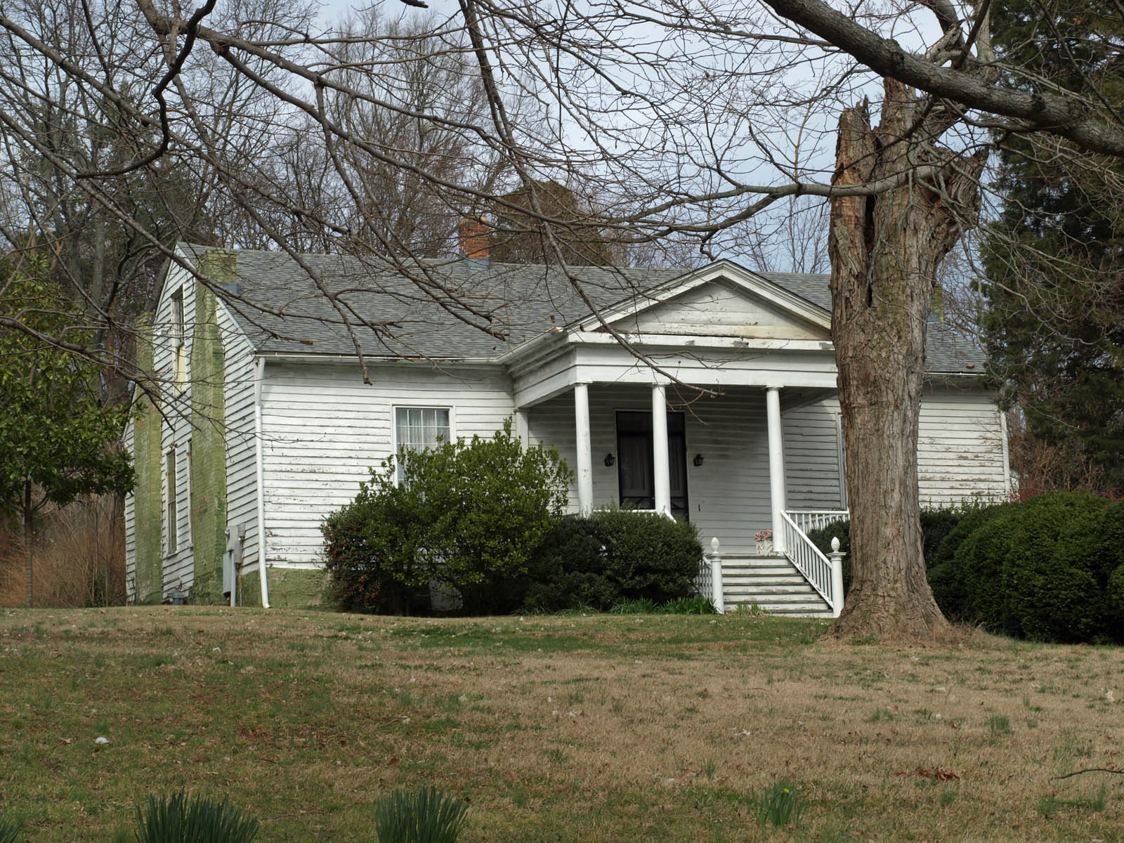 The Withers-Chapman House in Huntsville, Alabama, listed on the National Register of Historic Places